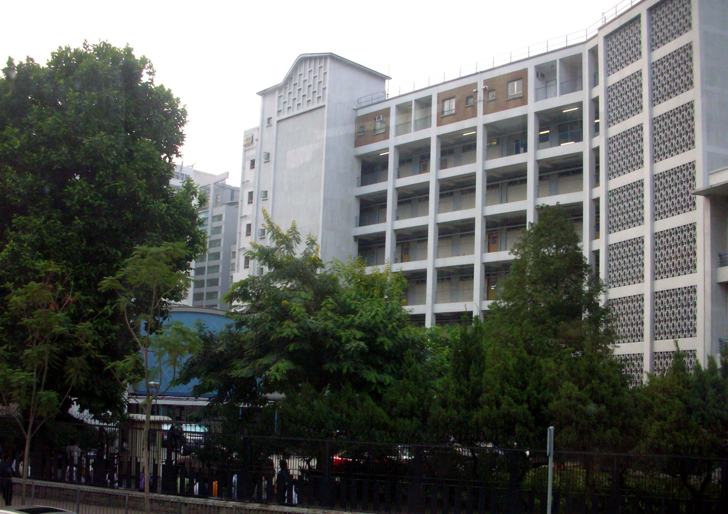 Diocesan Girls' School, Hong Kong